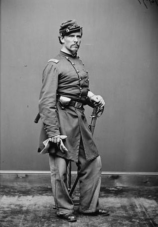 Title: Lt. Col. Wm. B. Hyde, 9th N.Y. Cavalry Physical description: 1 negative